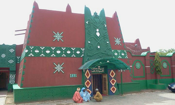 This is babban Gwani in the Bauchi Emir's palace, is build by the famous Munkaila Babban Gwani as a Living room where the emir can see visitors and other dignitaries. It was build around 1800AD, located in Bauchi Emirates', Bauchi state. This is an image of Cultural Fashion or Adornment from Nigeria